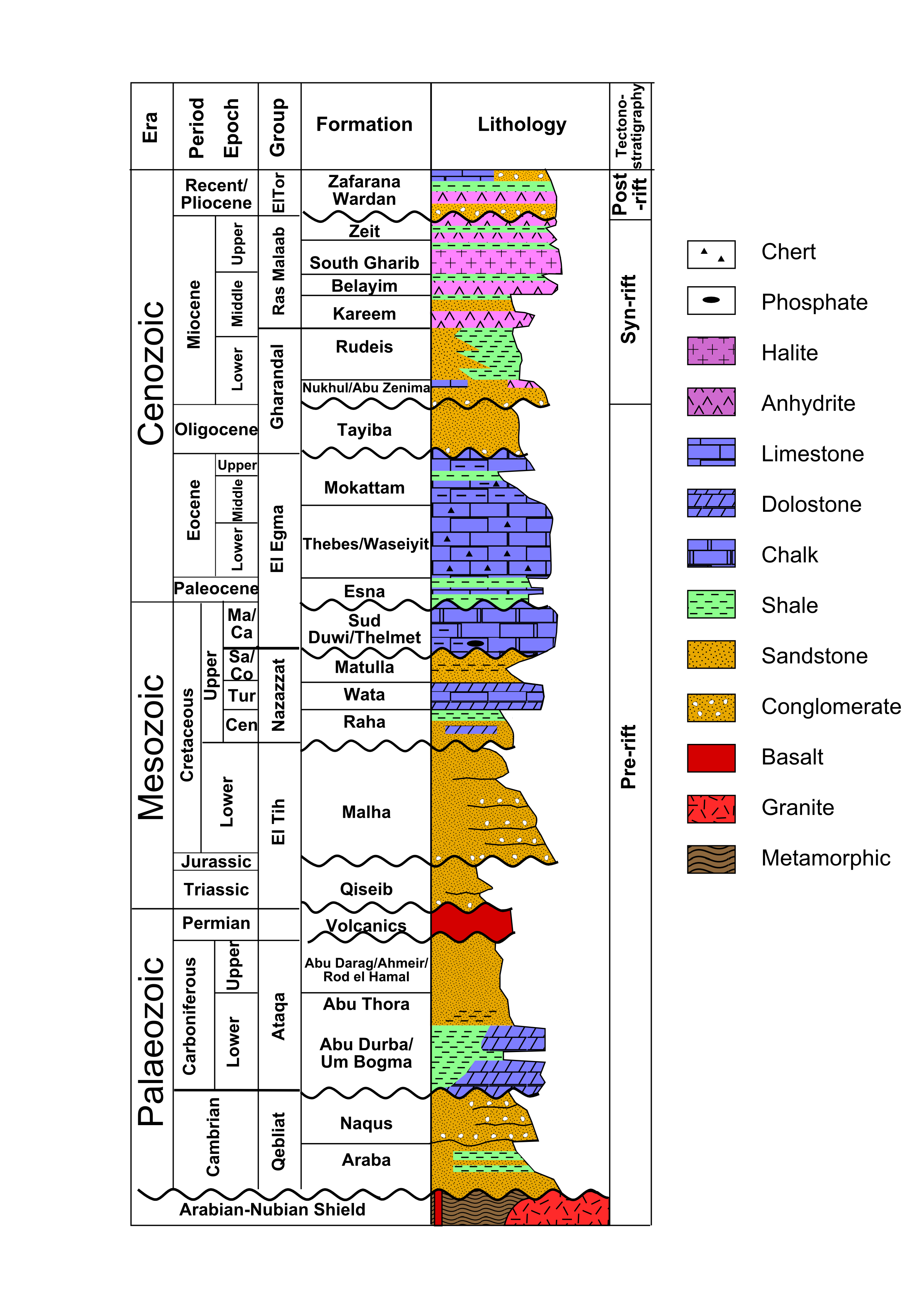 Stratigraphy of the Gulf of Suez rift, modified after Bosworth & McClay (2001)